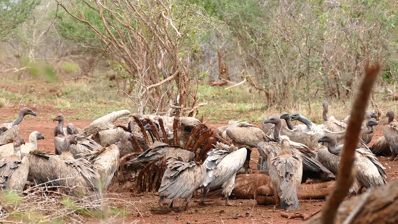 S128 Road North of Lower Sabie, Kruger NP, Mpumalanga, SOUTH AFRICA